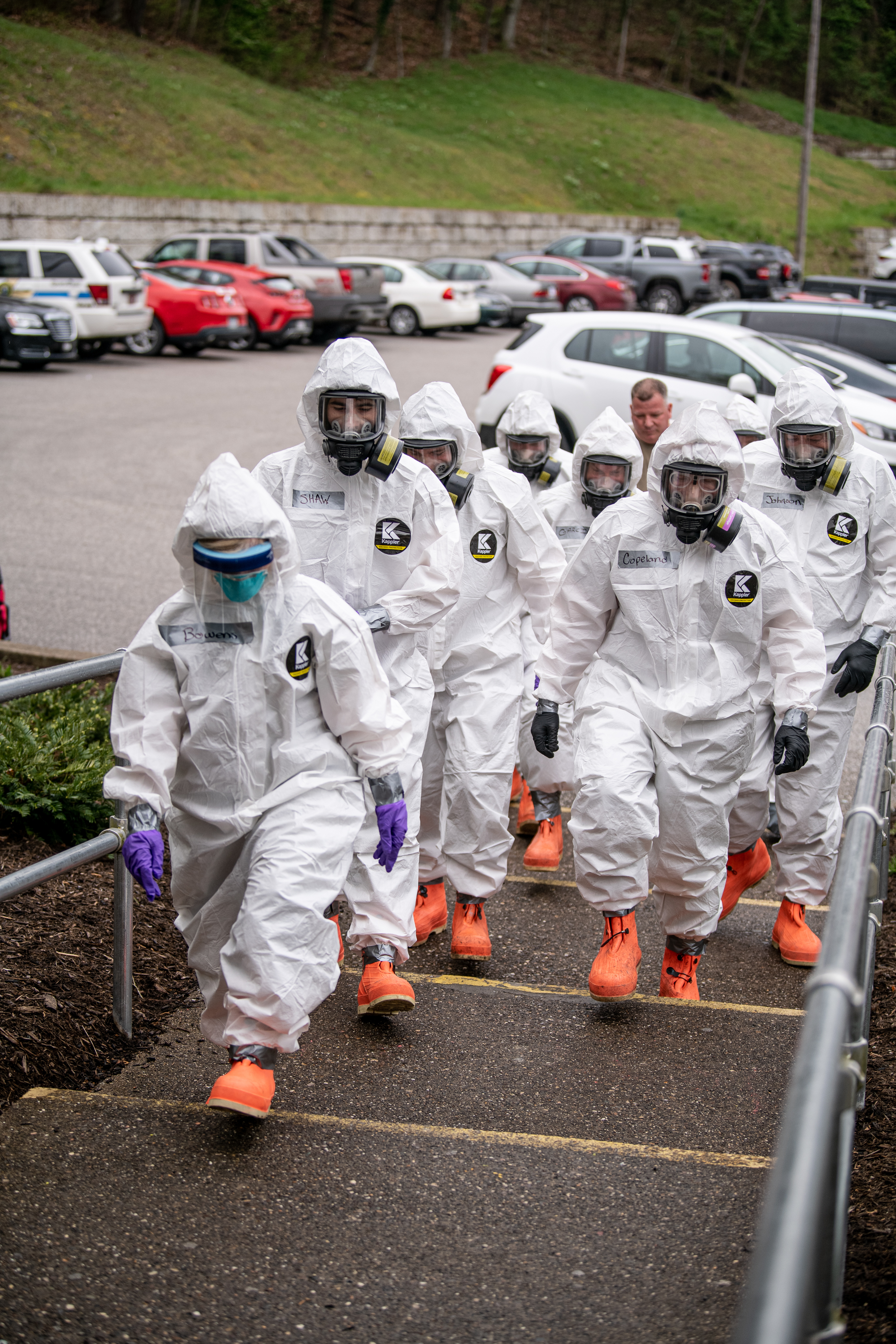 Members of the West Virginia National Guard’s Task Force Chemical, Biological, Radiological and Nuclear (CBRN) Response Enterprise (CRE) (TF-CRE) assist staff, medical personnel, and first responders of an Eastbrook Center nursing home with COVID-19 testing April 6, 2020, in Charleston, West Virginia, after a resident tested positive for the pandemic virus. Members donned proper personal protective equipment (PPE) to complete testing on more than 120 residents and 25 staff as part of ongoing operations across West Virginia in support of a whole of government response effort. (U.S. Army National Guard photo by Edwin L. Wriston)